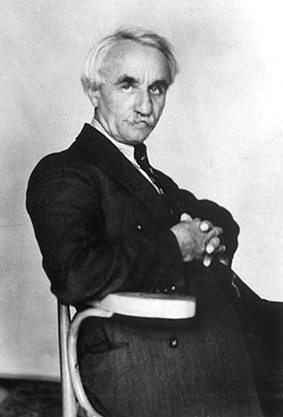 Borivoje Bora Stevanovic (1879-1976)